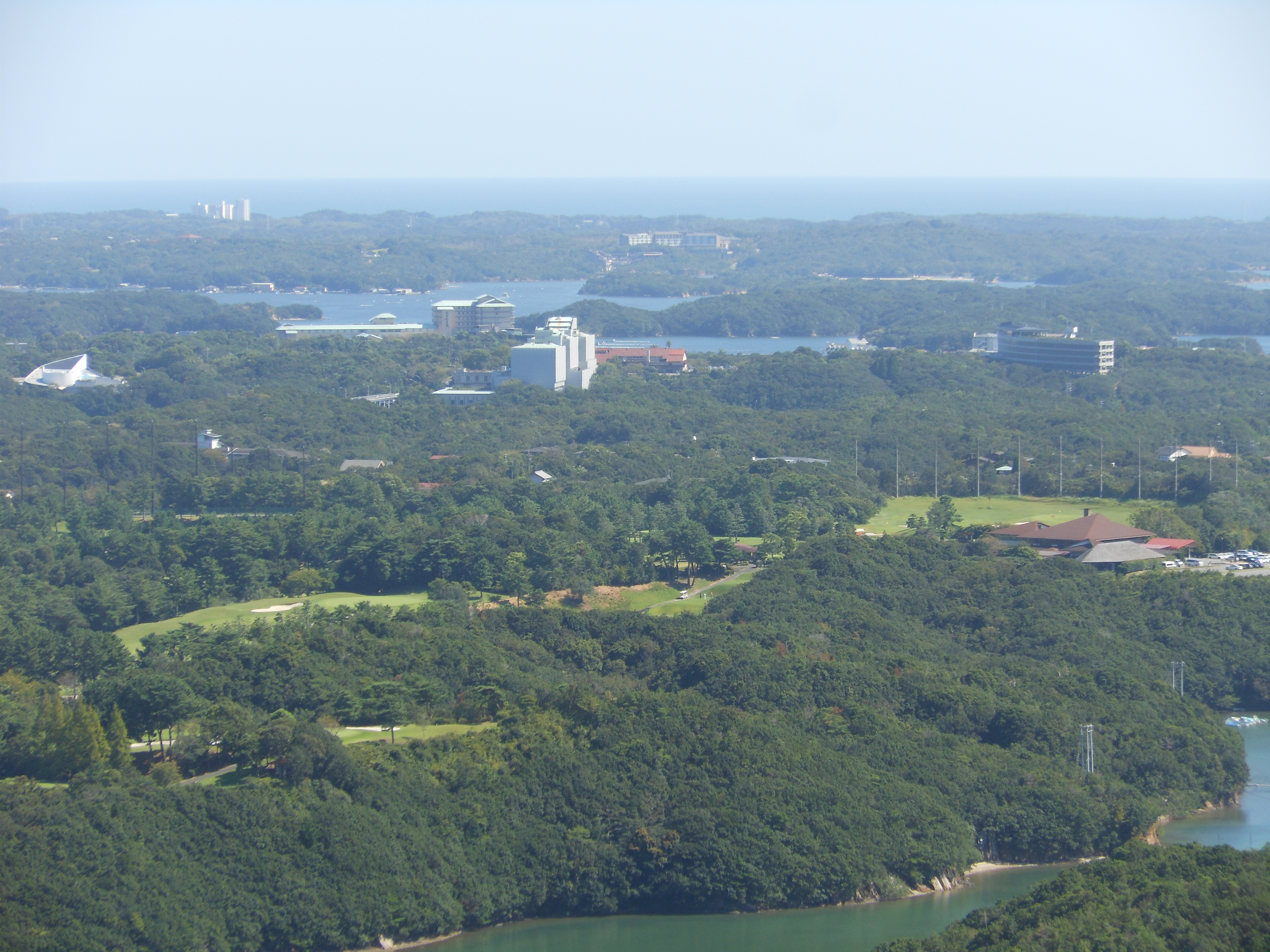 This is the Kintetsu Kashikojima Country Club in Shima, Mie, Japan.